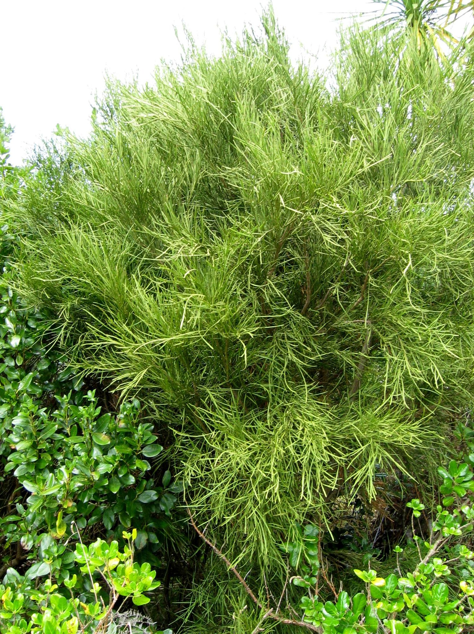 North Island Broom, on Tiritiri Matangi Island, New Zealand. Probably about 4 metres high.